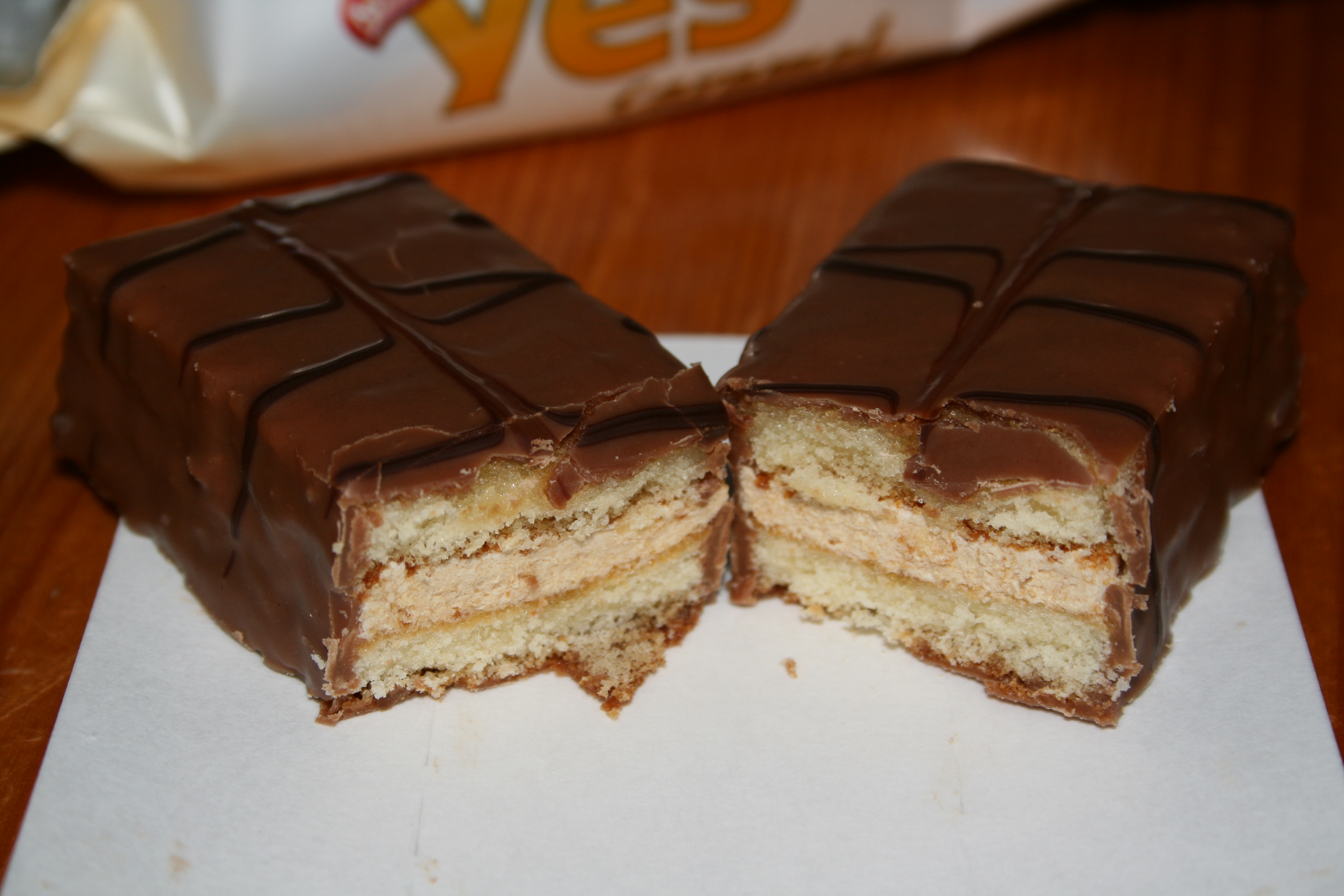 YES Torty Caramel